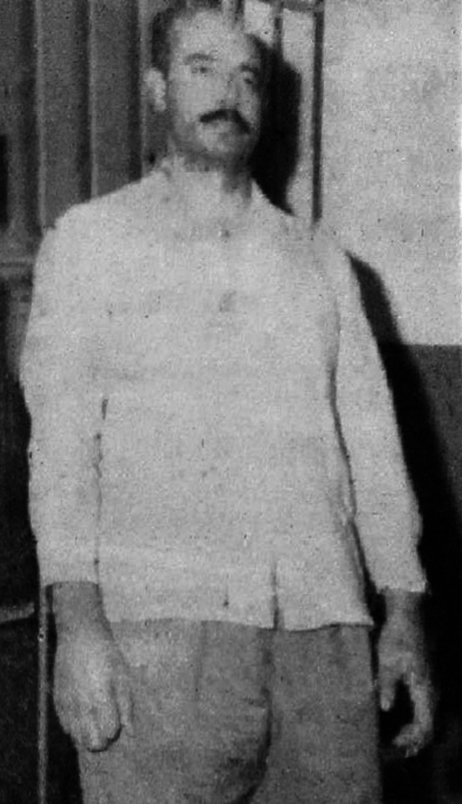 Colonel Jassem Alwan during his military trial for his attempt to overthrow the Ba'athist regime.